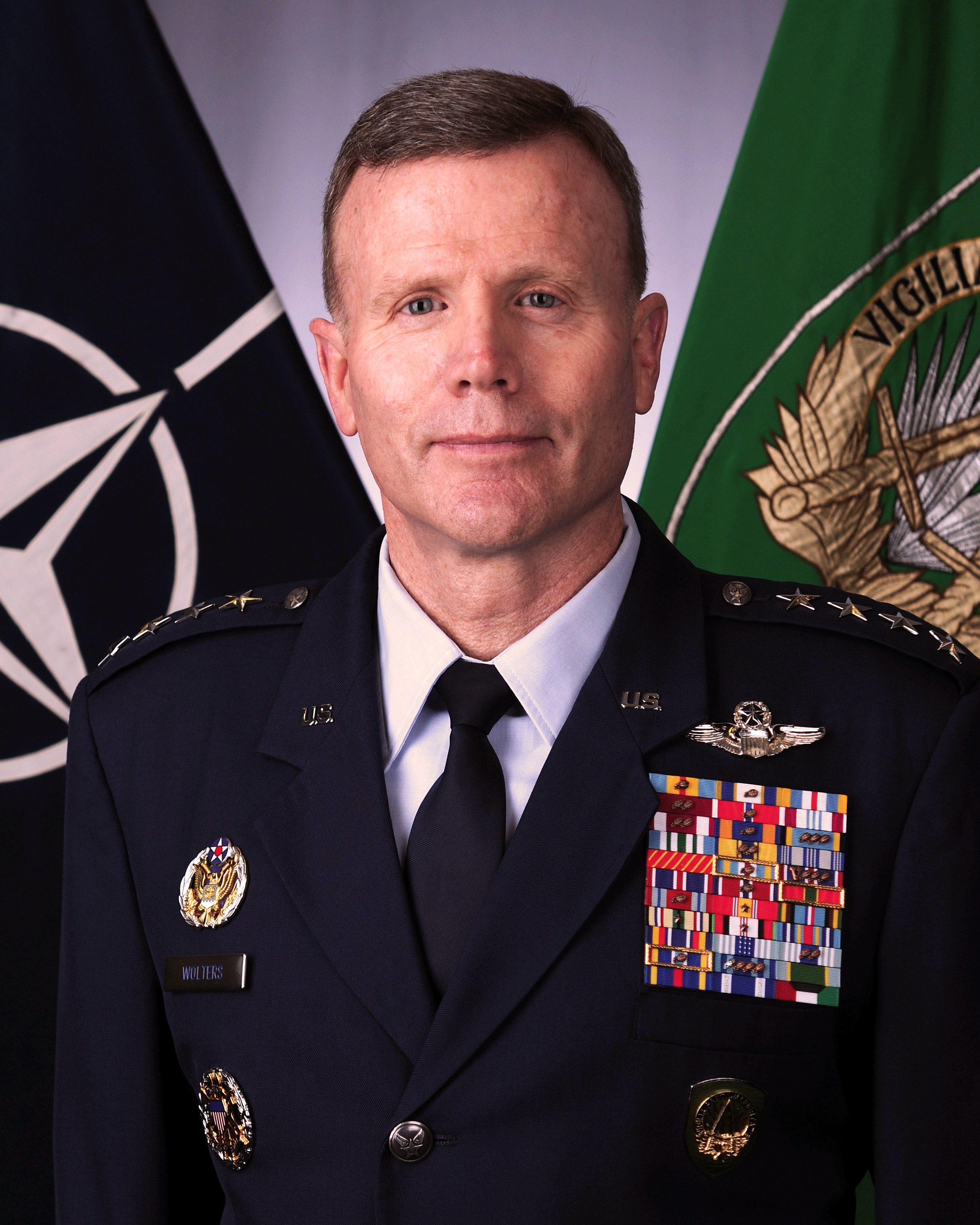 Gen. Tod D. Wolters, Commander, U.S. European Command and NATO's Supreme Allied Commander Europe (SACEUR)